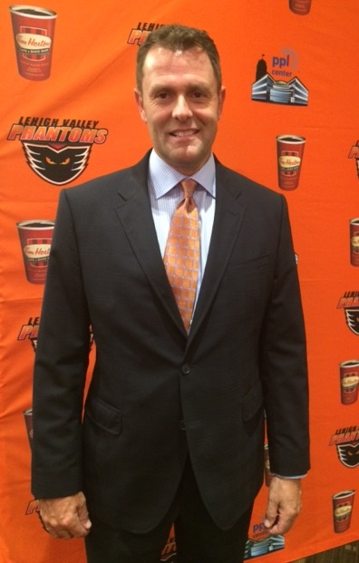 Scott Gordon during the announcement on July 21, 2015, that he would become head coach of the Lehigh Valley Phantoms.